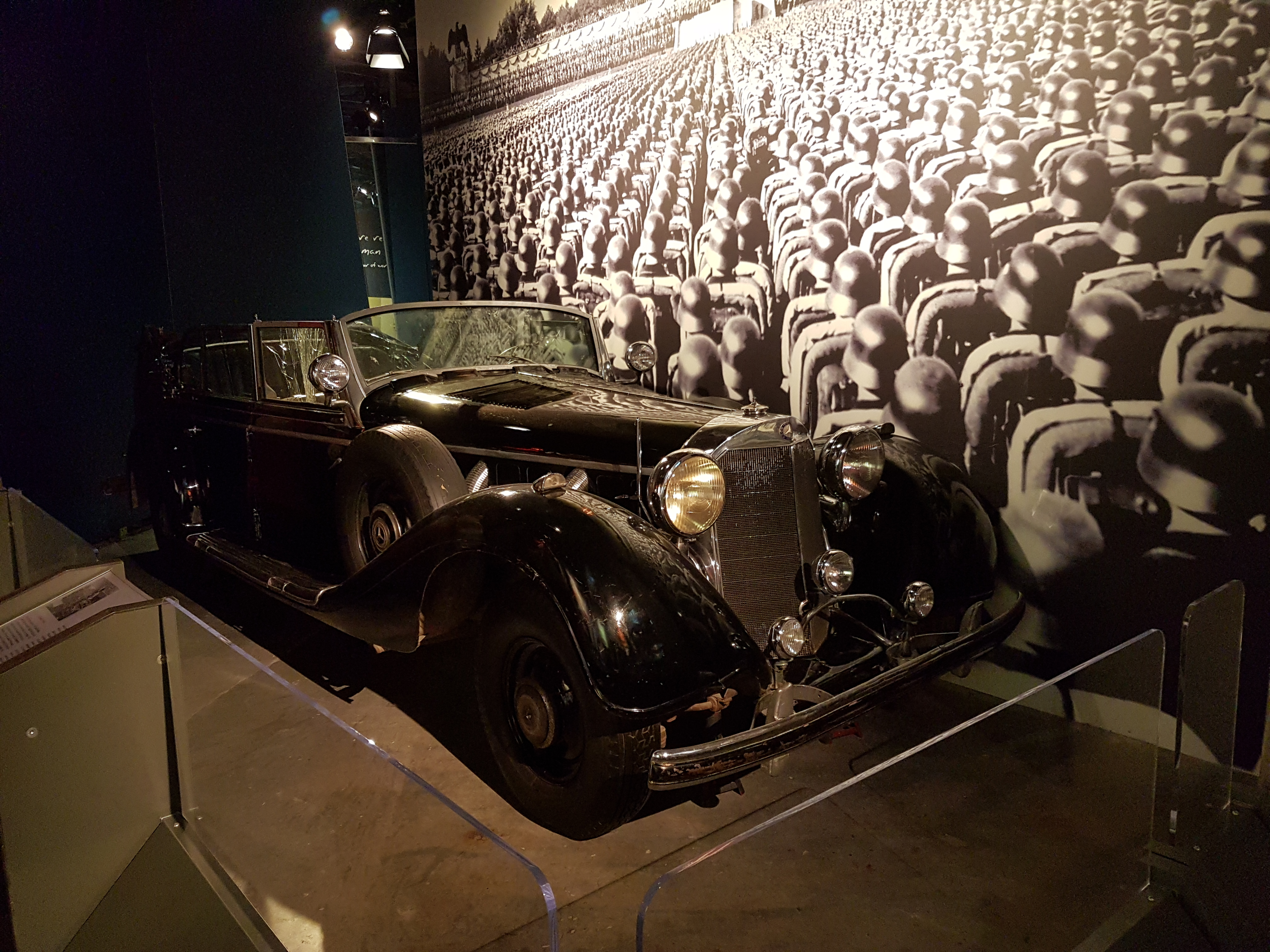 Mercedes Benz 770K at the Canadian War Museum in Ottawa.